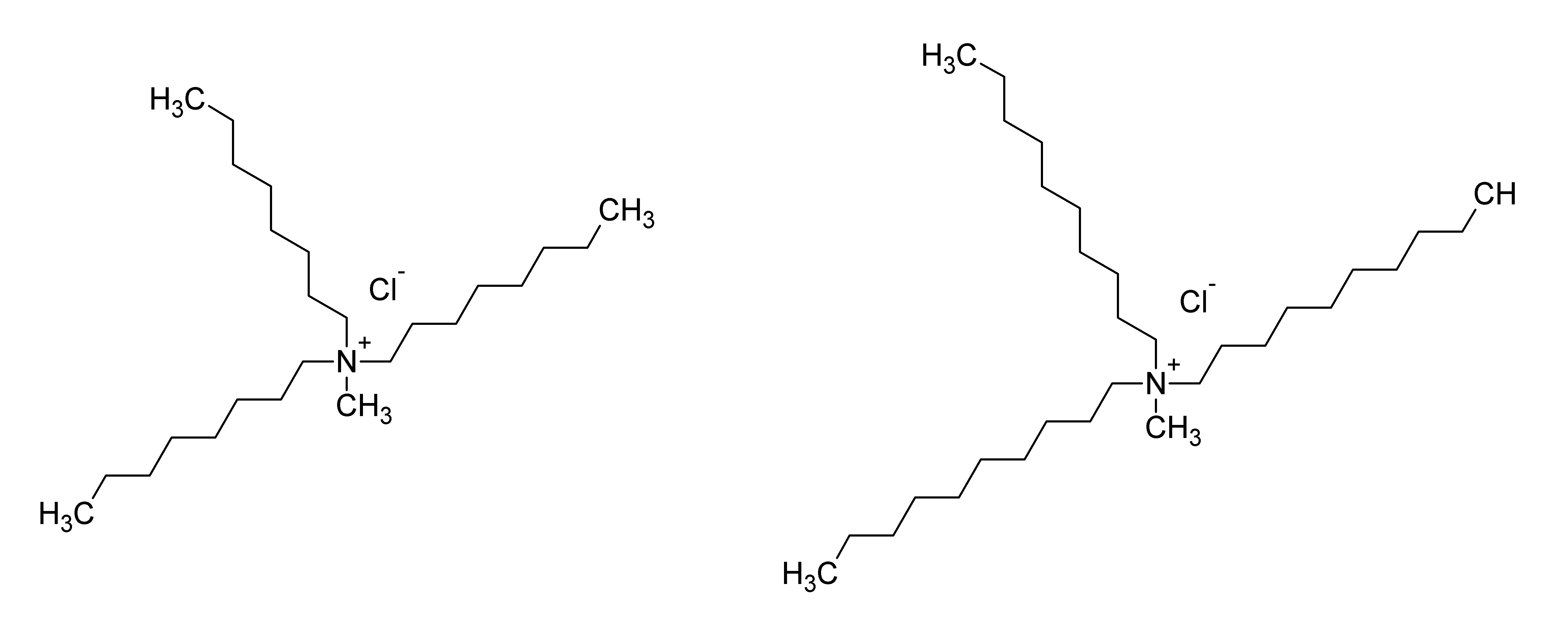 Comments High-resolution black/white .PNG made with ChemSketch and Photoshop — see WikiProject Chemistry - structure drawing for detailed instructions. Please drop me a note if you need the source file. Category:Chemical structures (Original text: Chemical structure of Aliquat 336)